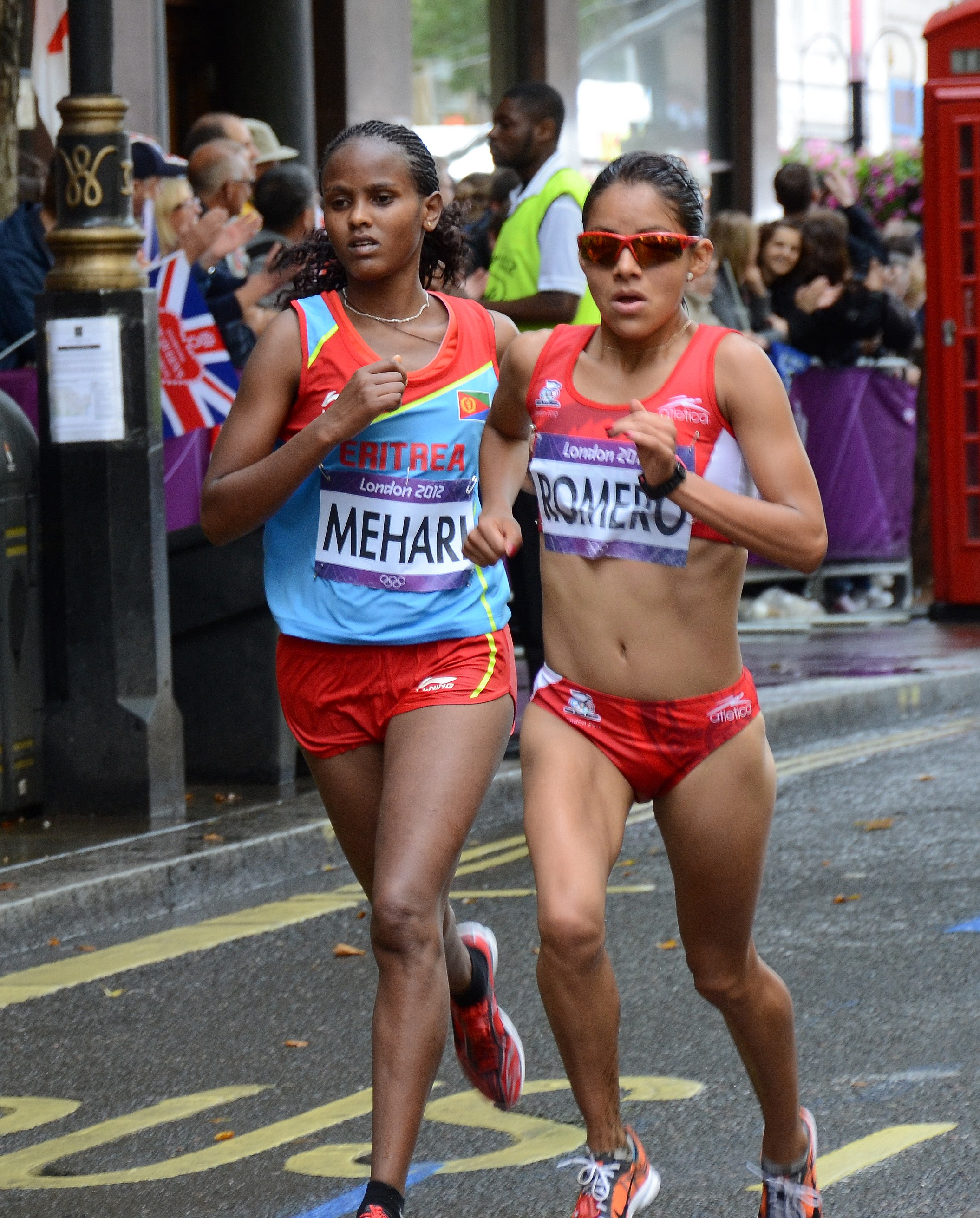 Rehaset Mehari (Eritrea) (l) and Marisol Romero (Mexico) (r) in the marathon (w) at the Olympic Games 2012